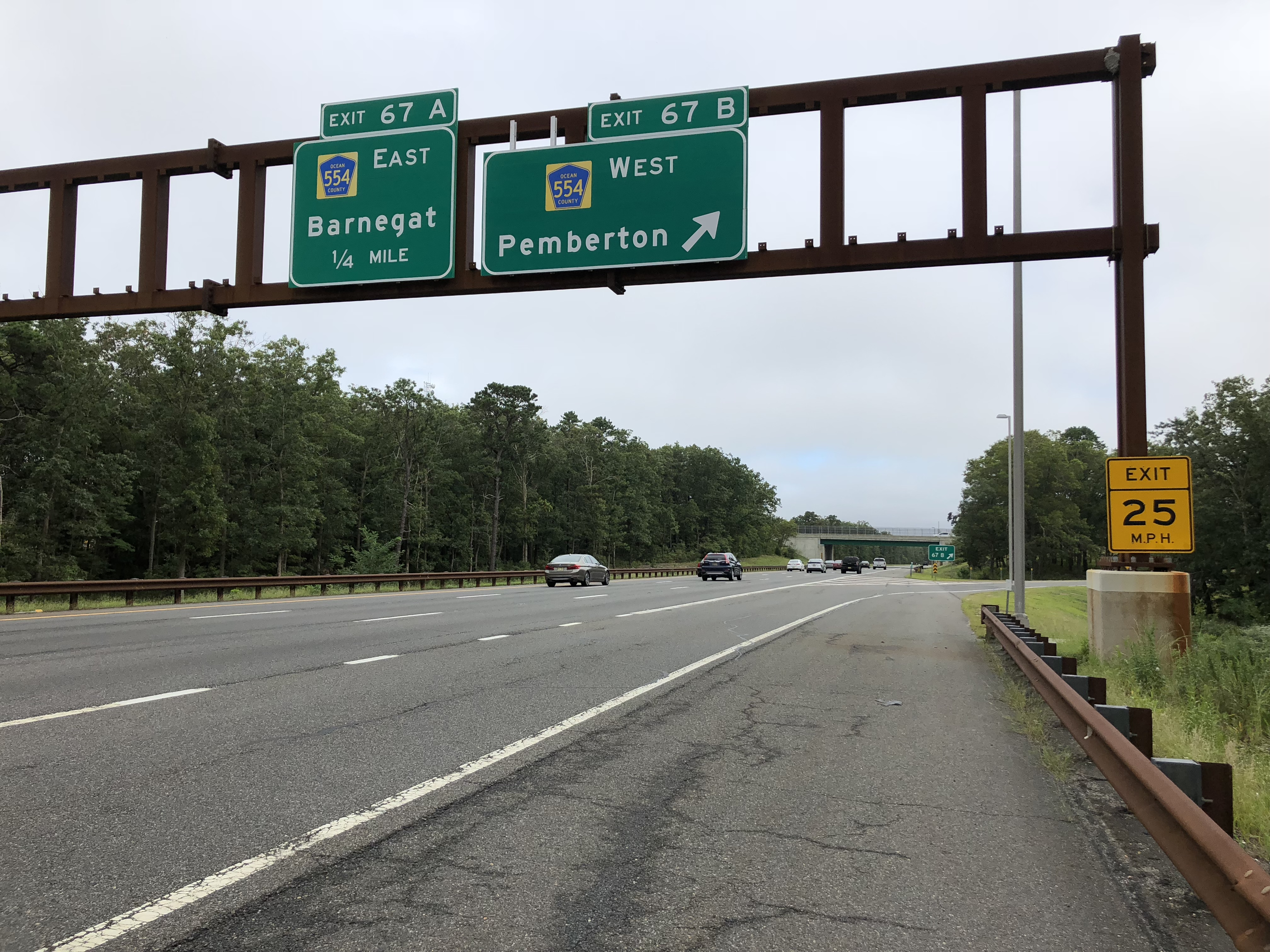 View south along New Jersey State Route 444 (Garden State Parkway) at Exit 67B (Ocean County Route 554 WEST, Pemberton) in Barnegat Township, Ocean County, New Jersey